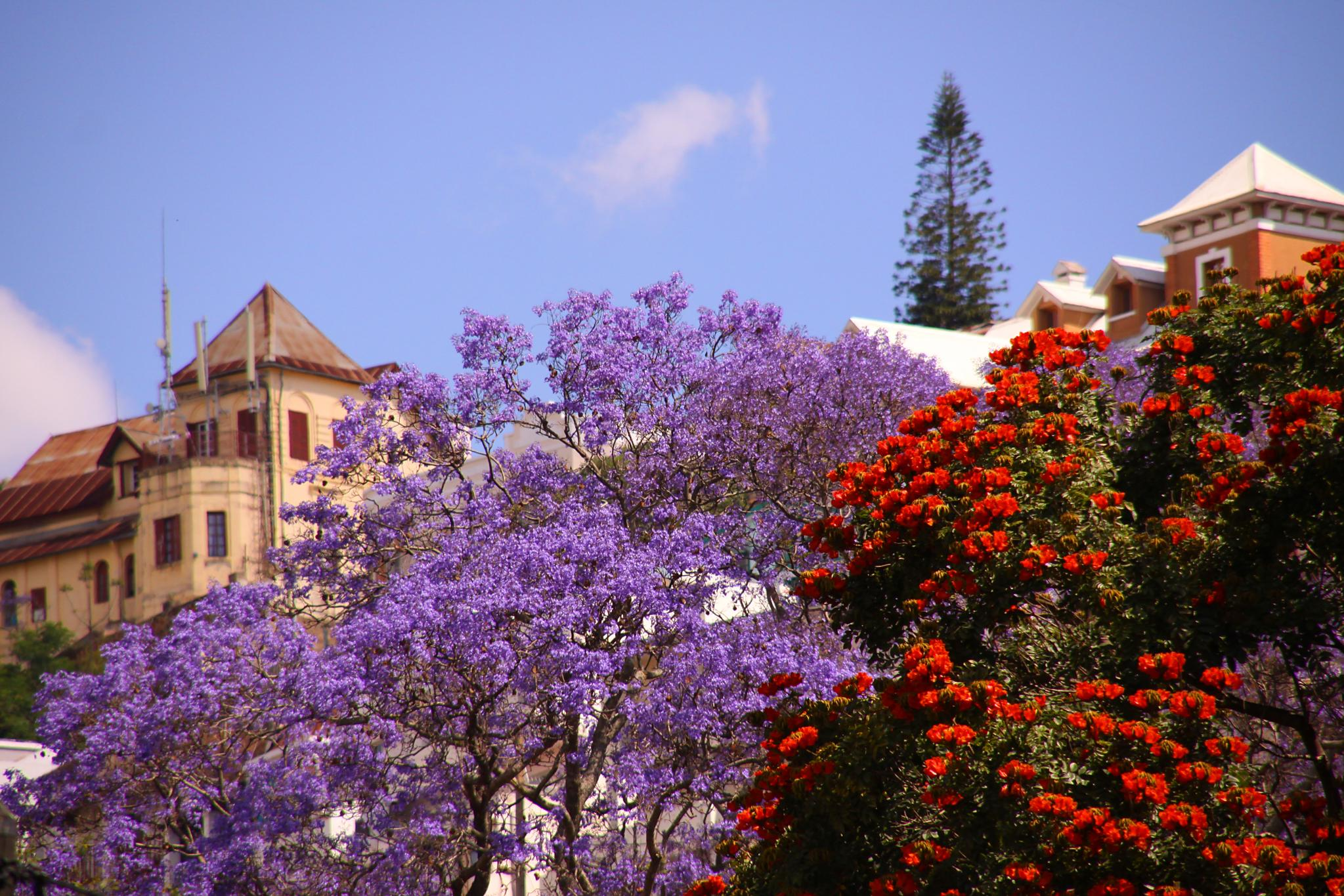 Jacarandas blooming in Antananarivo, Madagascar